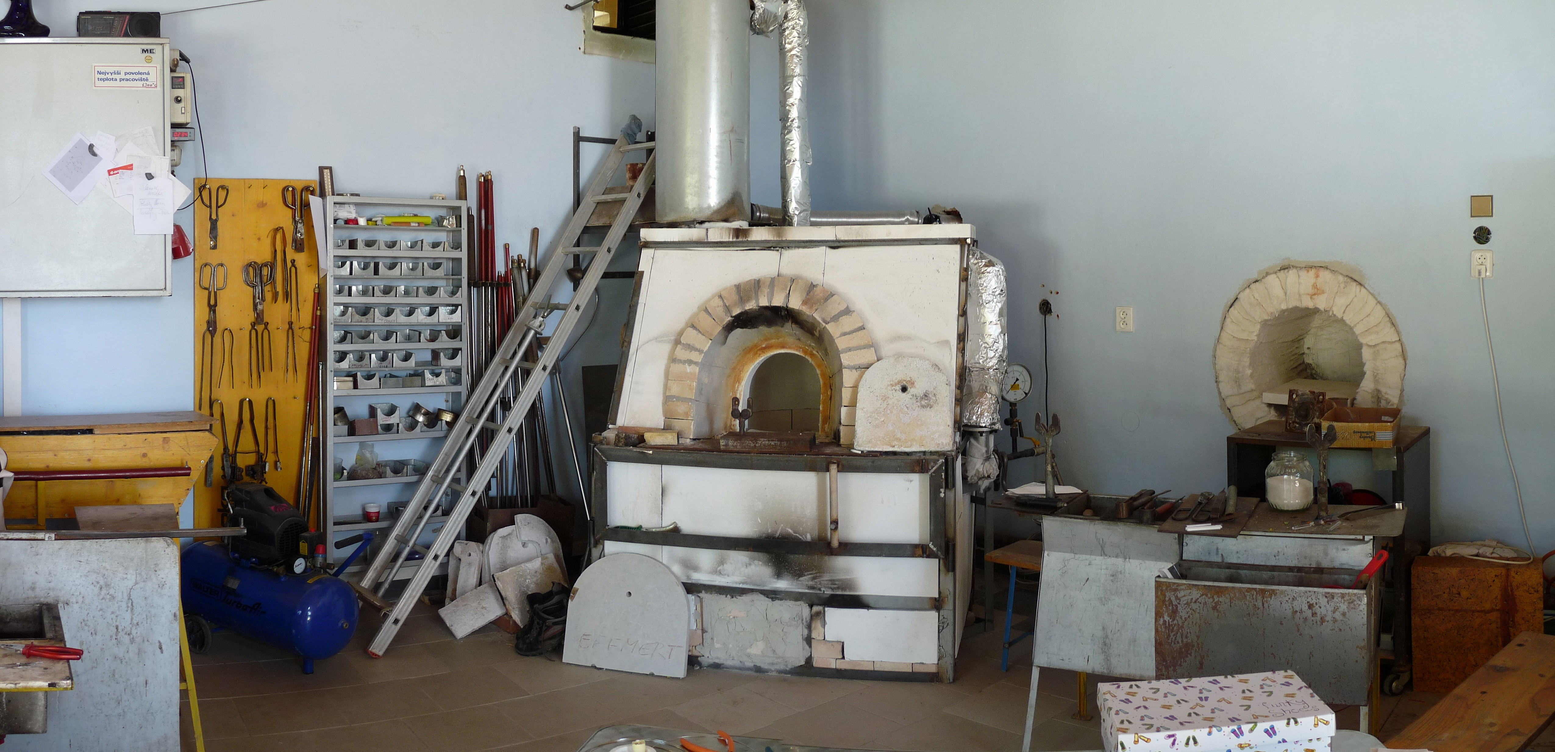 Glass oven and tools in the glass house near the village of Opatovice, part of Hrdějovice, České Budějovice District, Czech Republic.